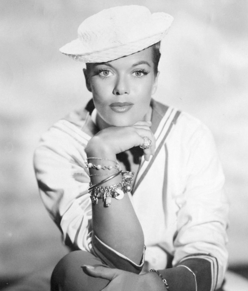 Photo of Janis Paige from the television comedy program It's Always Jan.